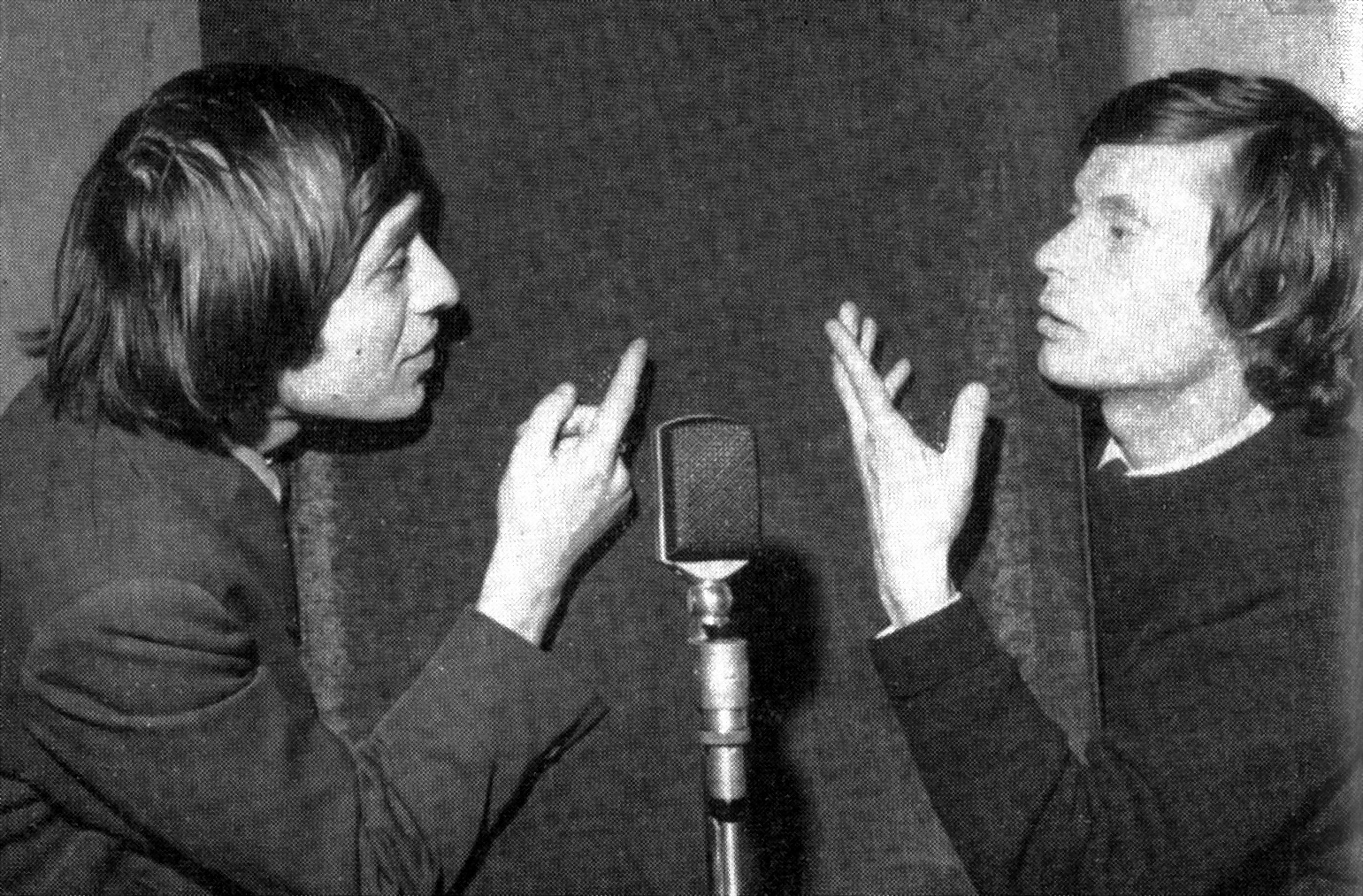 Jonasz Kofta and Stefan Friedmann while recording their program